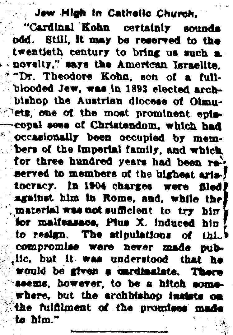 Article about the resignation of Theodor Kohn, Archbishop of Olmütz, in the New Orleans Newspaper L'Abeille de la Nouvelle Orléans, 31 March 1910